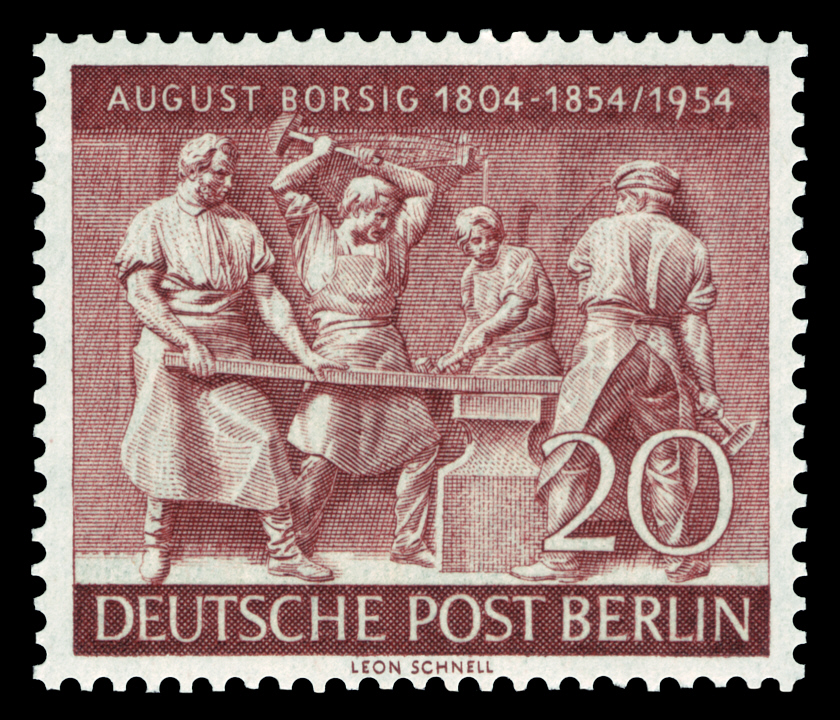 100th day of death of August Borsig (1804–1854) and German Industrial Exhibition Graphics by Leon Schnell Ausgabepreis: 20 Pfennig First Day of Issue / Erstausgabetag: 25. September 1954 Michel-Katalog-Nr: 125 (Berlin)